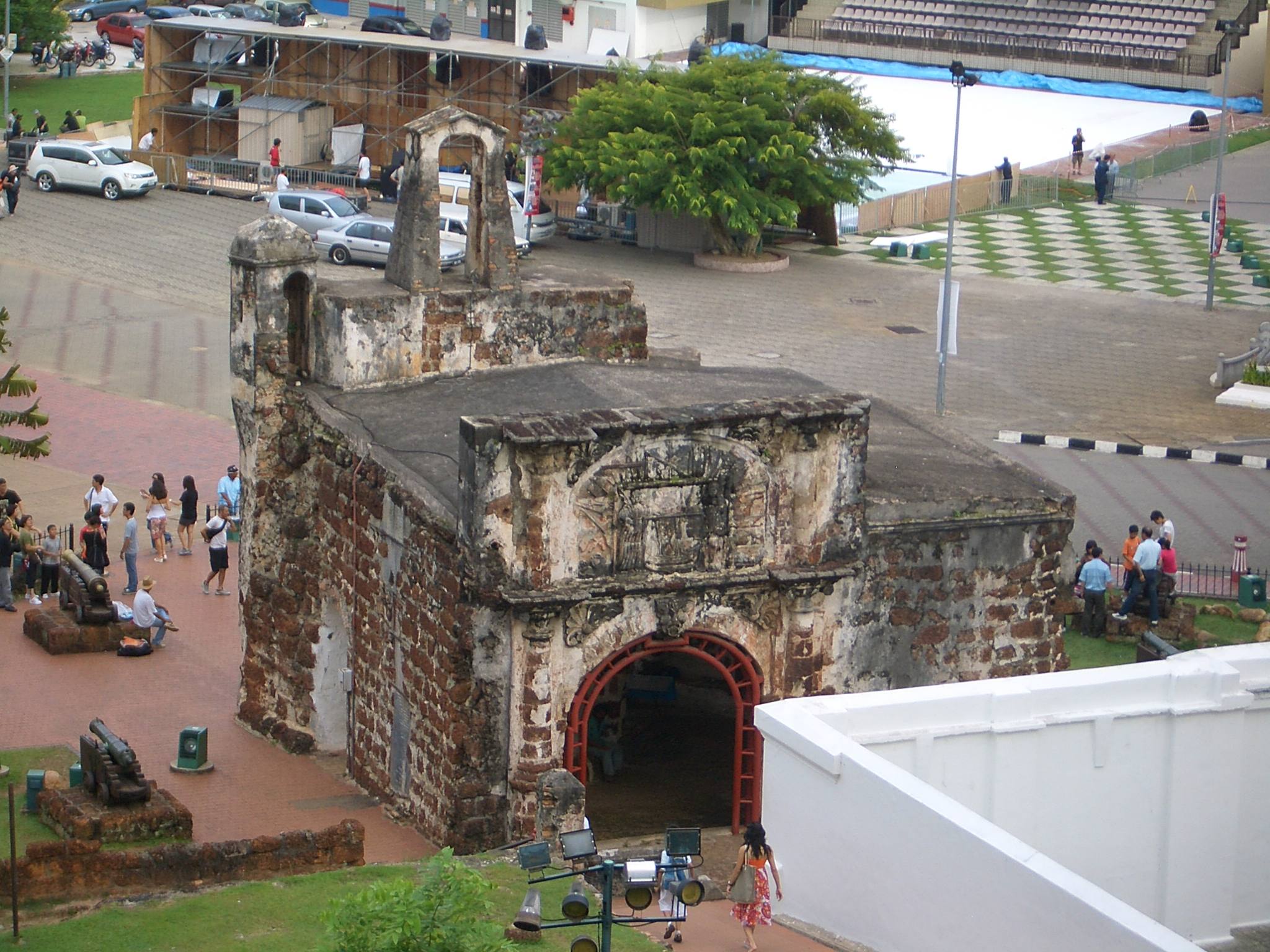 Porta de Santiago (part of the former A Famosa fortress) seen from the historic St Paul's Hill (looking SE)